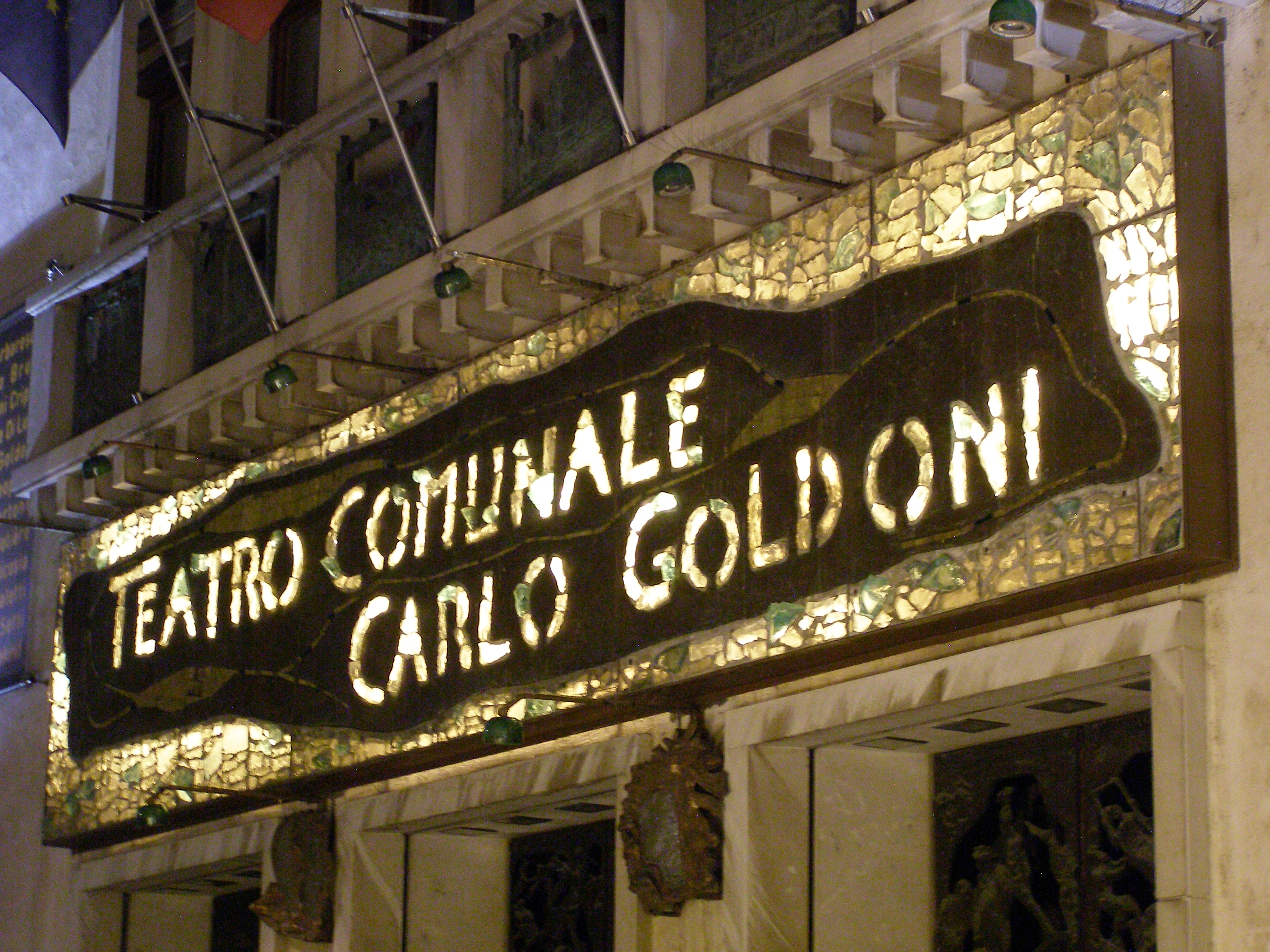 Venice - Comunal Theatre sign